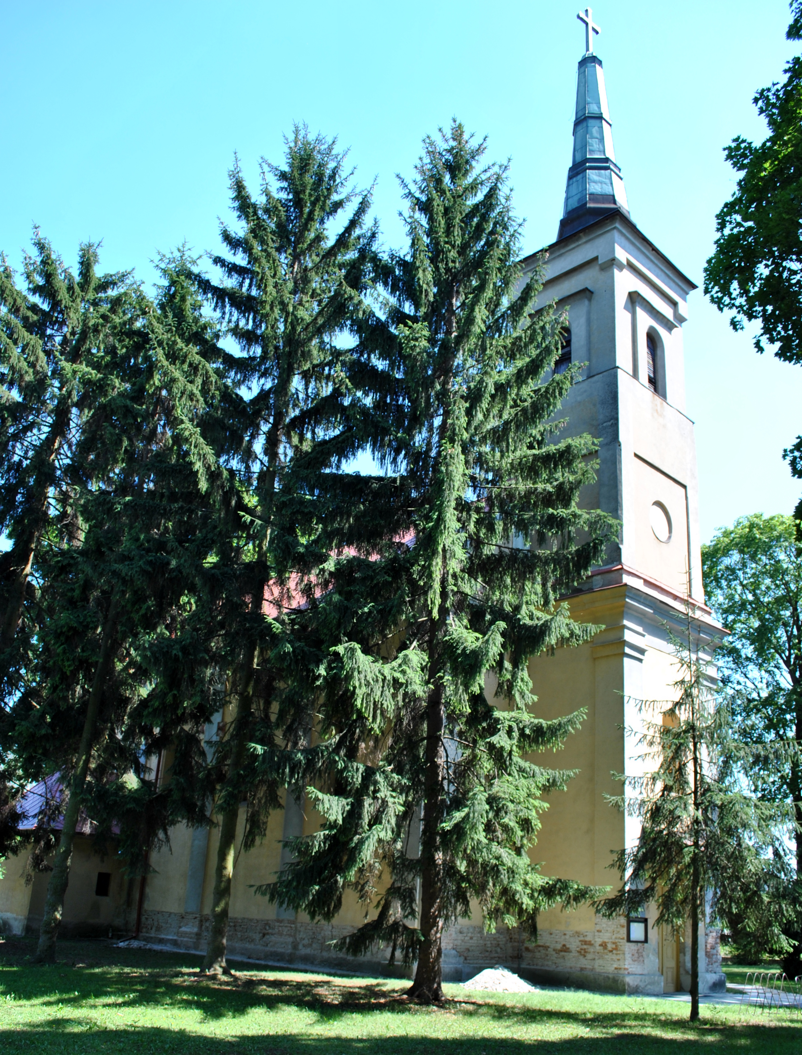 Roman Catholic church in Kalná nad Hronom